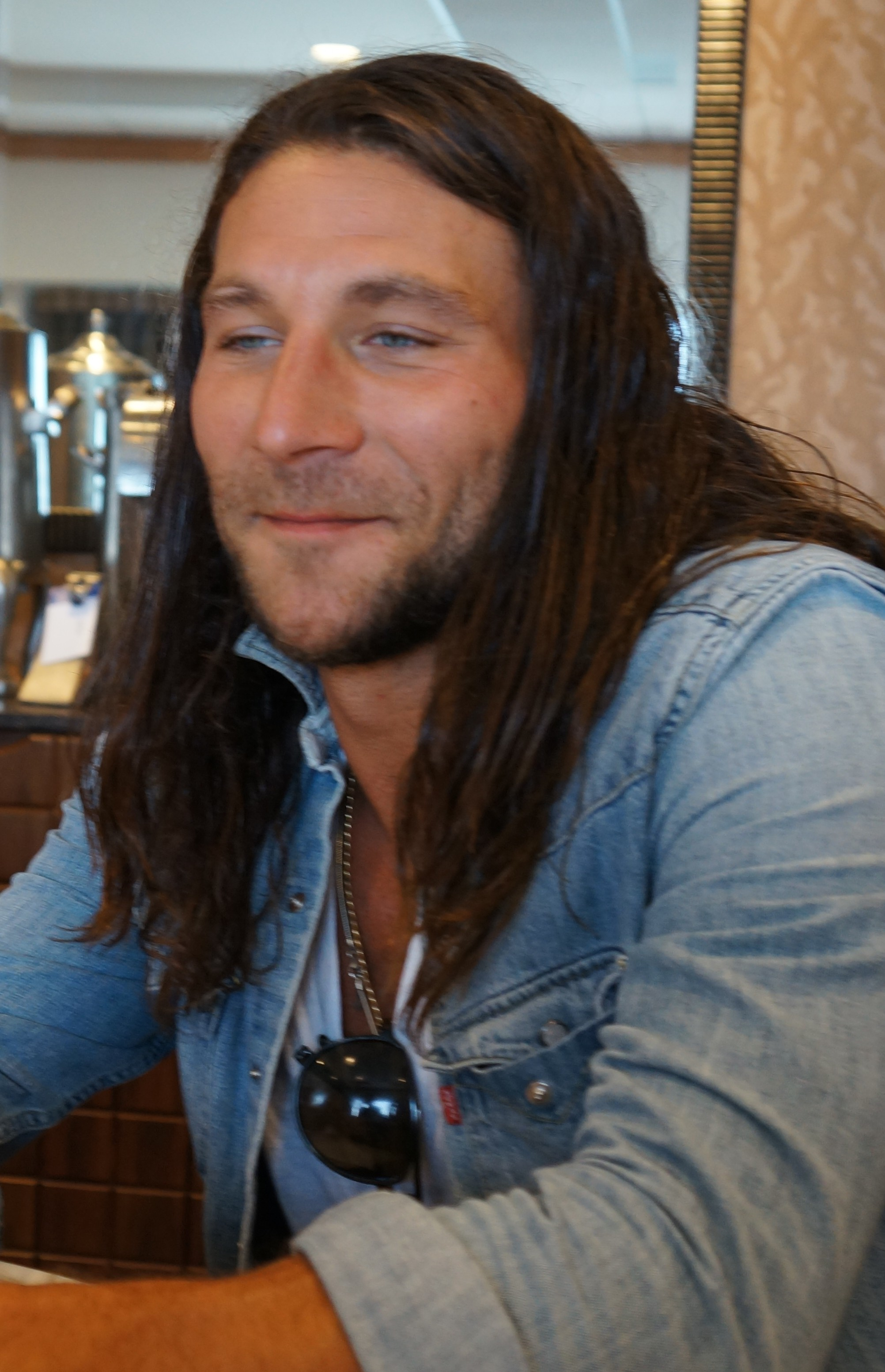 Zach McGowan at the 2013 SDCC